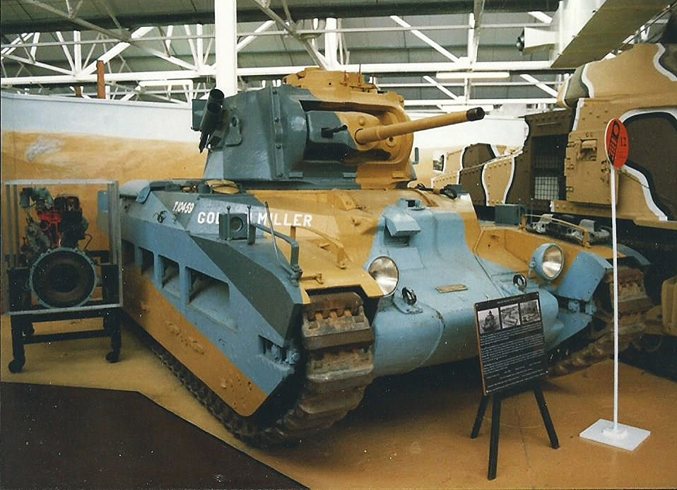 UK - Infantry Tank Mk.II, (A12) Matilda II Mk.IIA with a 2 pdr (40mm) gun at the Bovington Tank Museum, March 1998. Known as the 'Queen of the Desert' as when first used in the Western Desert in WWII its heavy armour proved invulnerable to Italian tank fire whilst its small, but high velocity, gun was able to penetrate Italian armour easily. However, when the Africa Korps was shipped to North Africa the heavier German tanks (Panzer Mk.IV) turned the tables although it was still a match for the Panzer Mk.III.